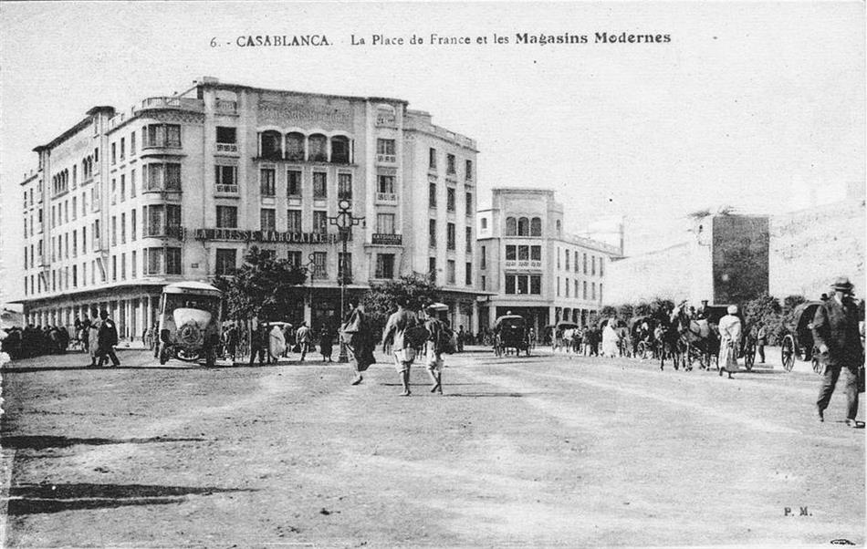 Magasins Modernes, Magasins Paris-Maroc, Galeries Lafayette, Galeries Marocaines, in Casablanca, Morocco.